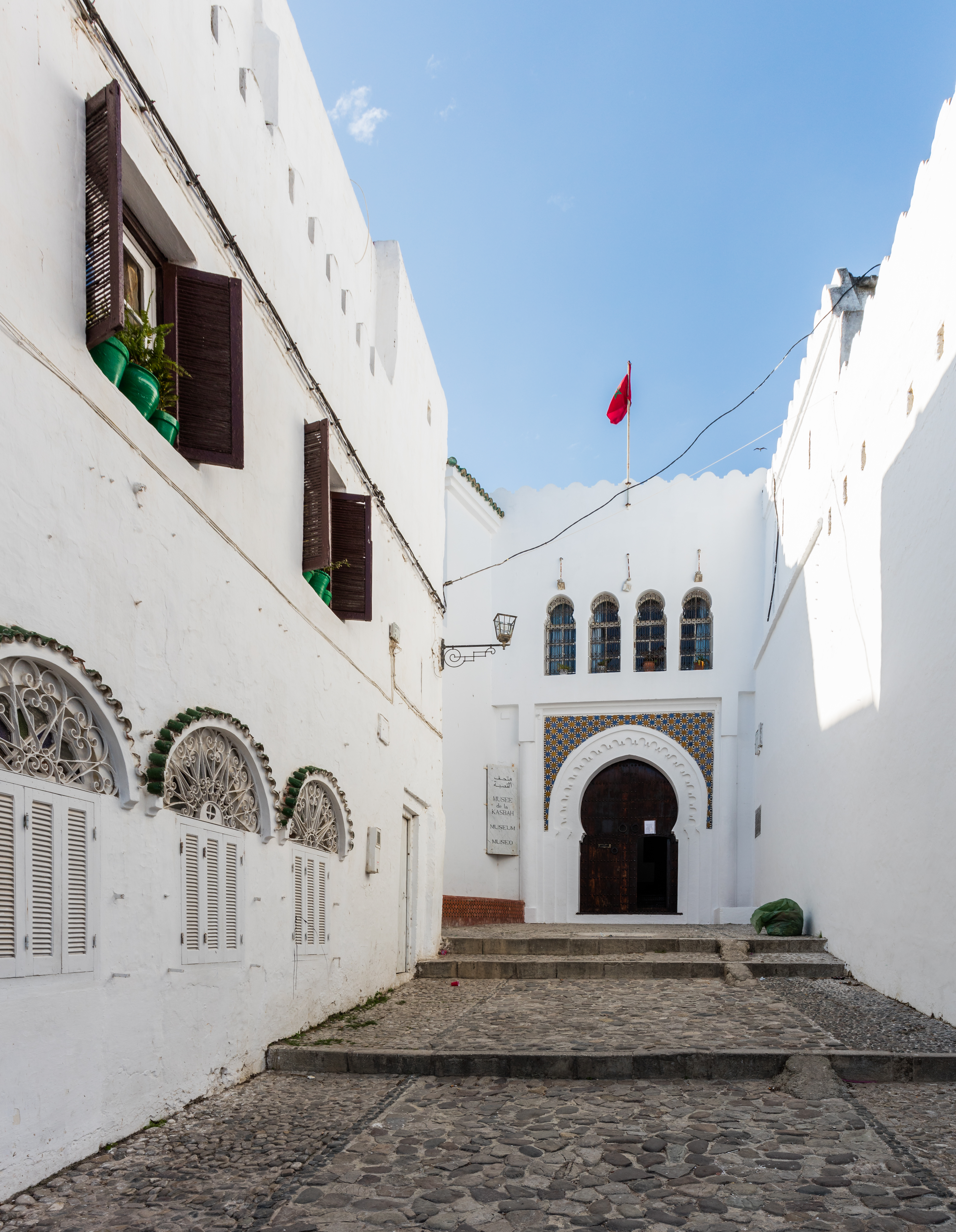 Kasbah, Tangier, Morocco